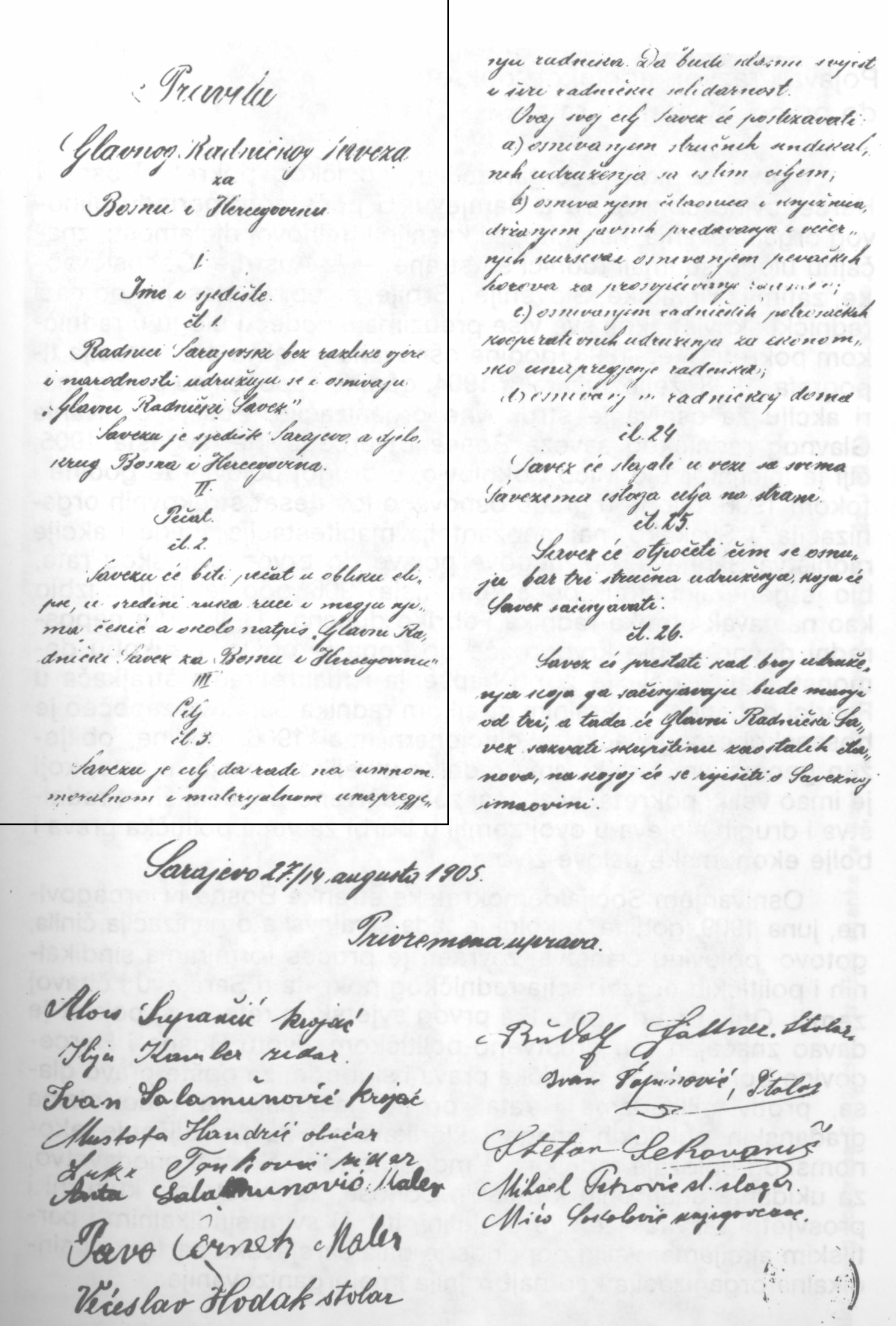 Part of the first page (upper left corner) and the last page of the original manuscript of the Rules of the General Workers' Union (the first trade union to be founded in Bosnia and Herzegovina), with the names of its provisional management members (at the bottom) Srpskohrvatski / српскохрватски: Dio prve strane (gornji lijevi ugao) i zadnje strane Pravila Glavnog radničkog saveza (prvog sindikata osnovanog u Bosni i Hercegovini), sa imenima članova privremene uprave sindikata